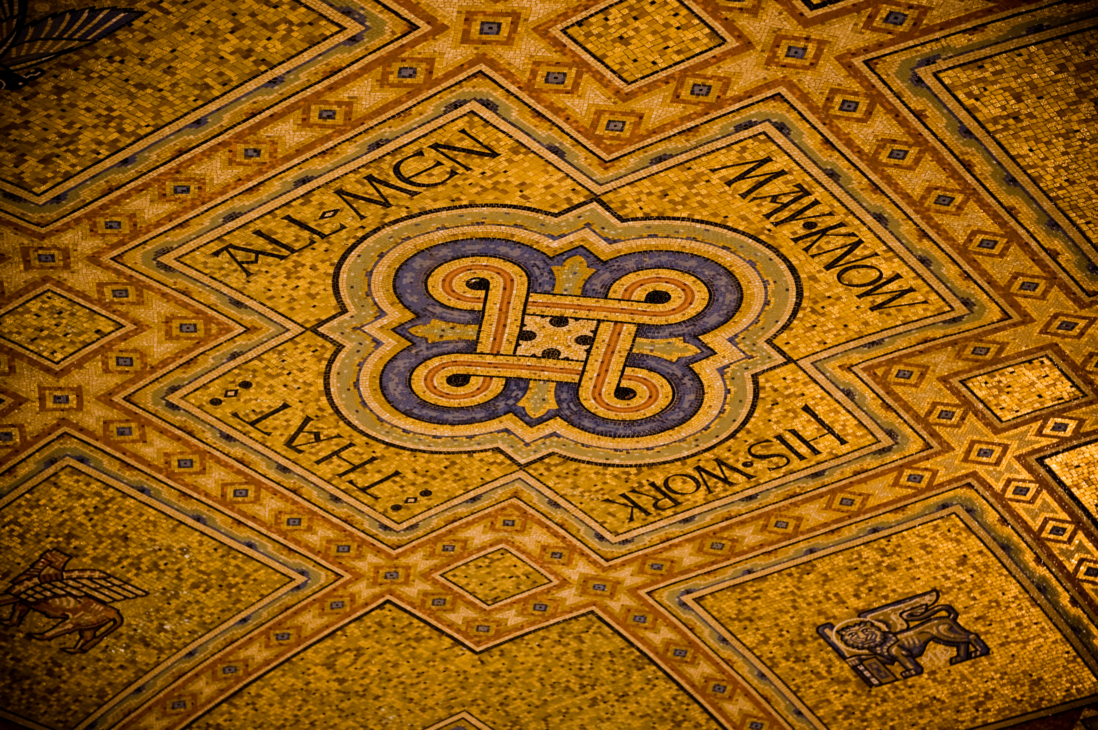 Mosaic ceiling in the Royal Ontario Museum, Toronto, Canada.